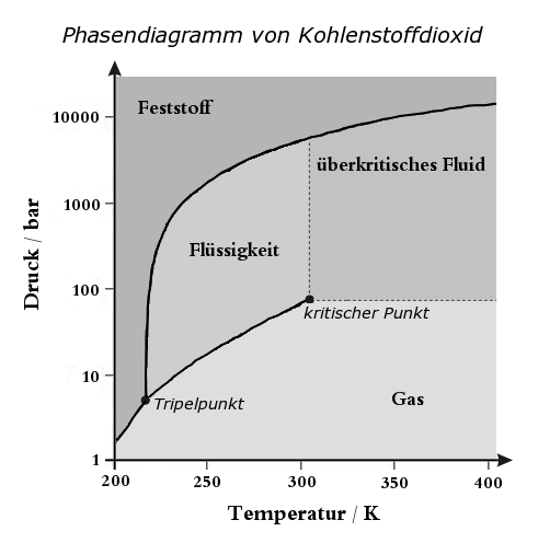 phas diagram of carbon dioxide